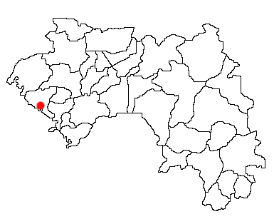 Boffa, Guinea Location Map; created with the GIMP. Made by User:Acntx.